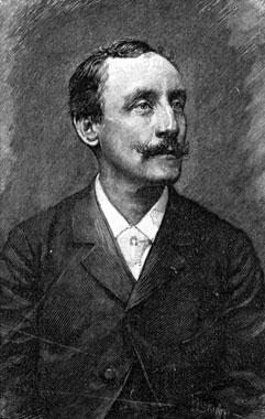 Gustave Lyon (1857 - 1936) french acoustician, managing director of Pleyel et inventor of several musical instruments